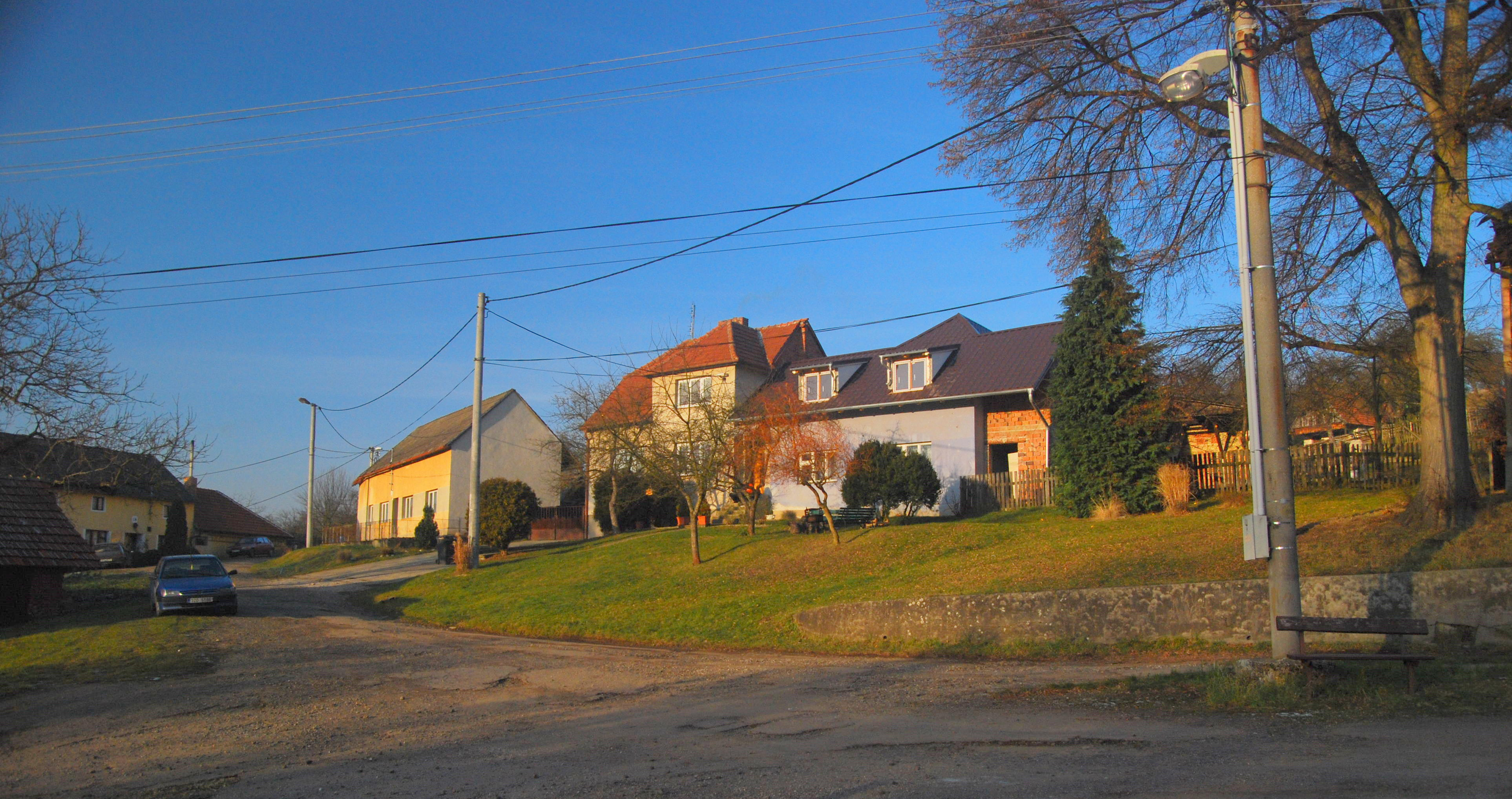 Houses in Marsov, Uhersky Brod, Czech Republic